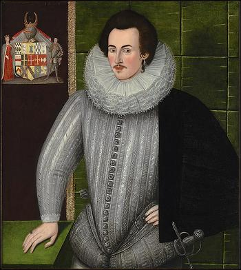 'Sir Charles Blount (1563-1606), later 8th and last Lord Mountjoy